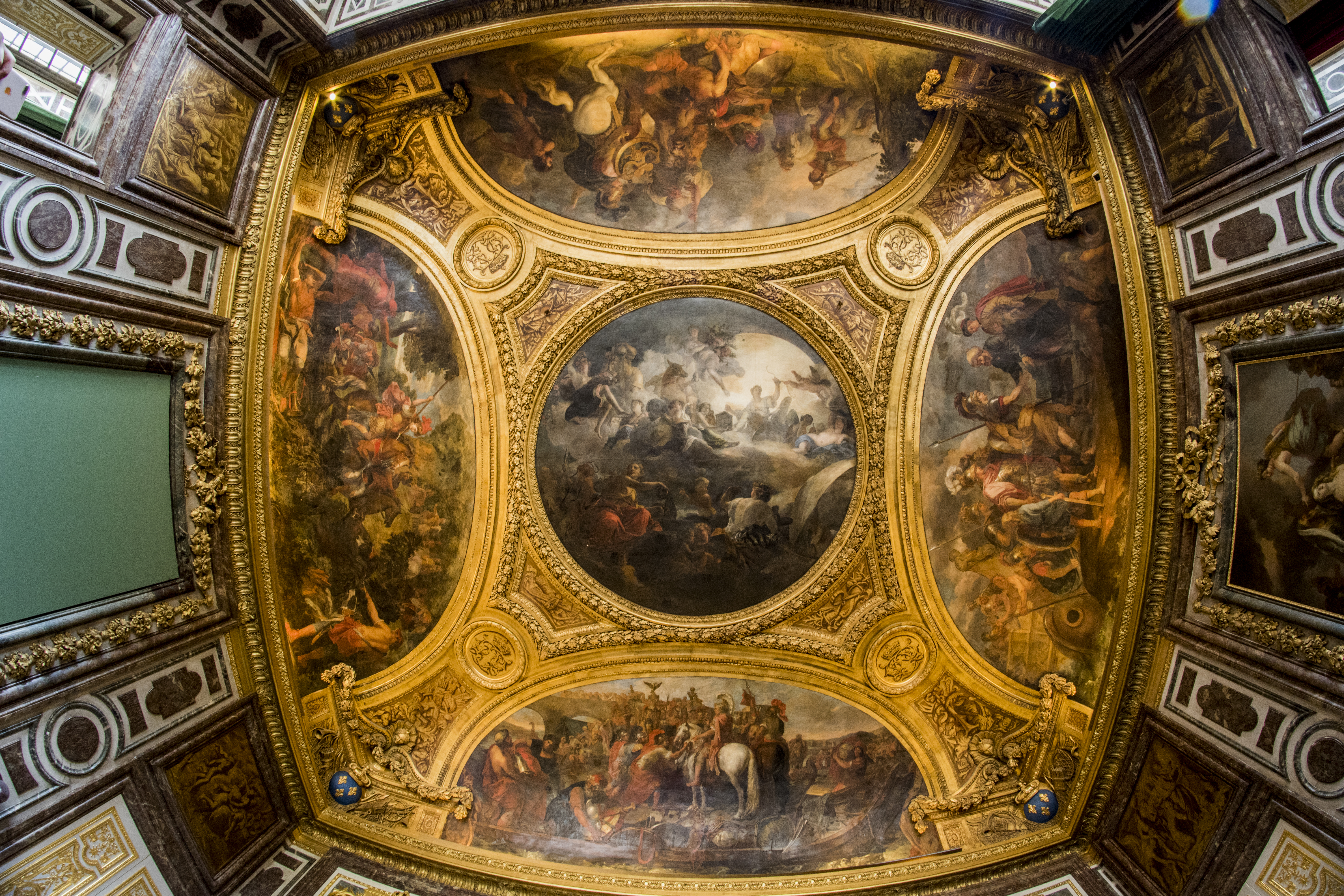 Ceiling of the salon de Diane, Grand appartment of the King, Palace of Versailles, France. .